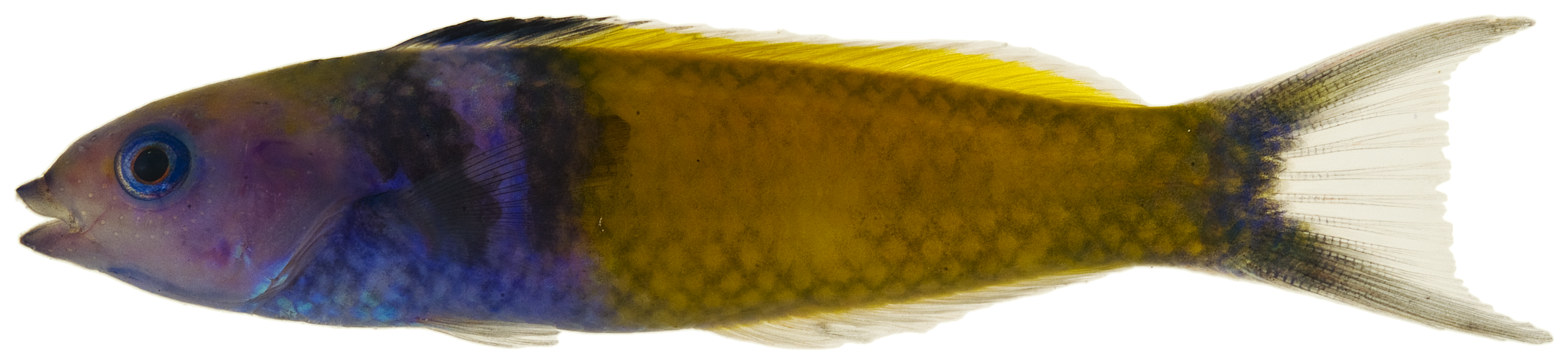 Thalassoma bifasciatum (Bloch, 1791)—bluehead, 63.5 mm SL, terminal male color phase. Photo by JT Williams.